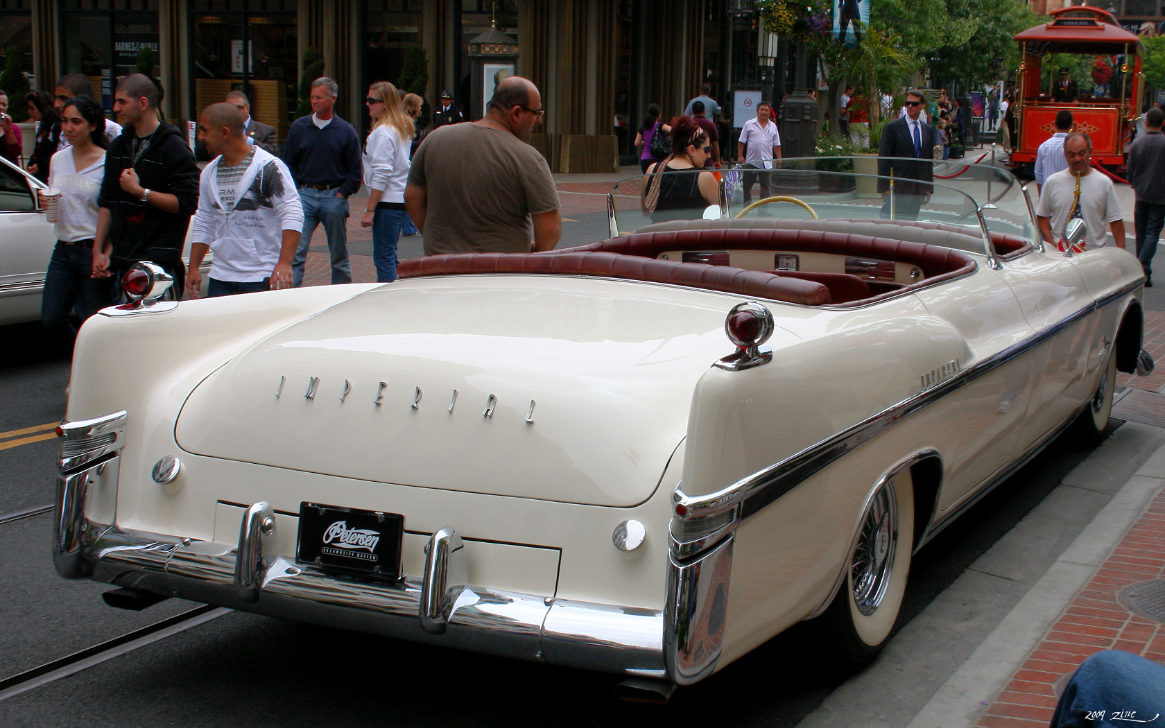 Chrysler Imperial phaeton 1956Caruso Concours d'Elegance Stars and their Cars; Glendale, CA May 31, 2009